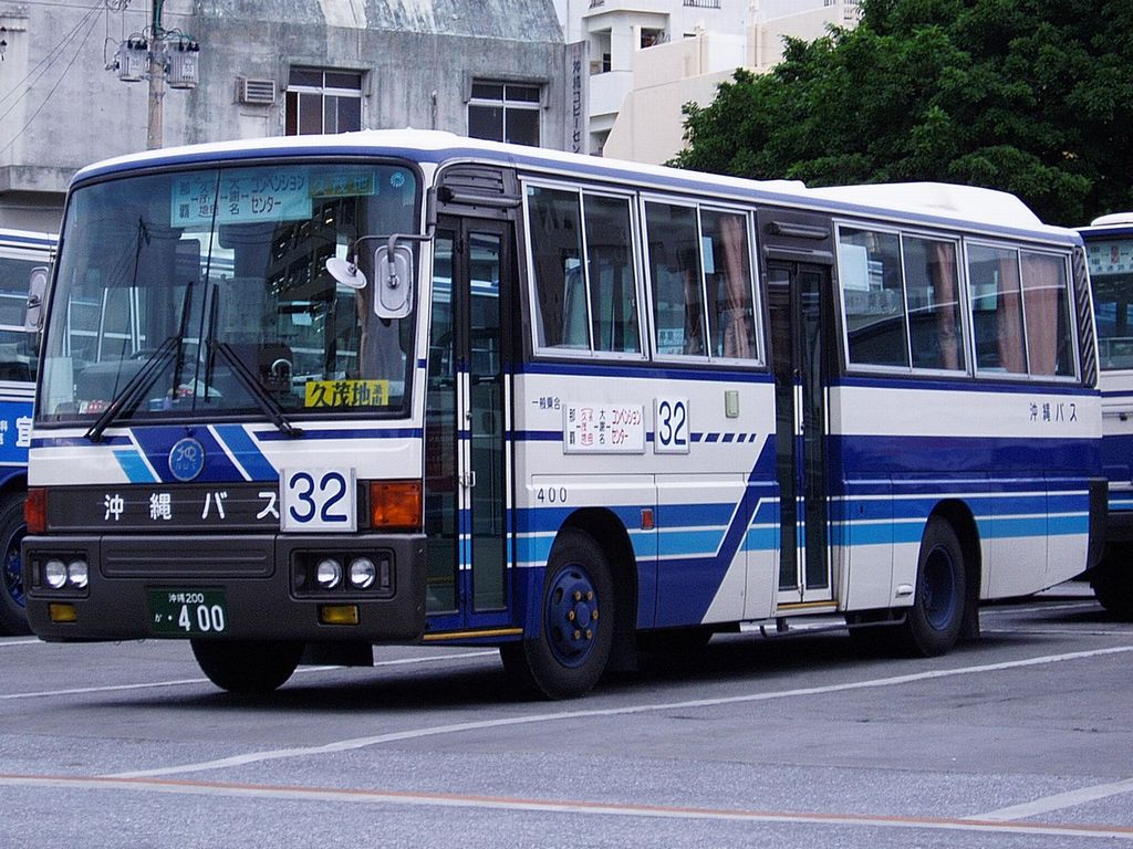 Okinawa Bus